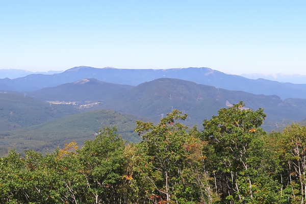 Utsukushigahara (backgound) as seen from the southeast. Nagano Prefecture, Honshu, Japan. Taken from the foot of Mount Tateshina.